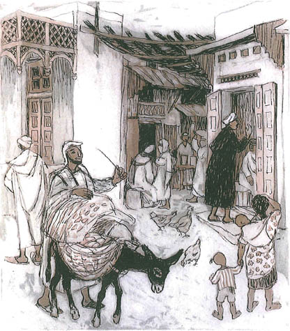 Egners sketch of a street environments in Fez el Bali. From a study tour to Marokko in 1949. Please credit the artwork as Drawing: Thorbjørn Egner.